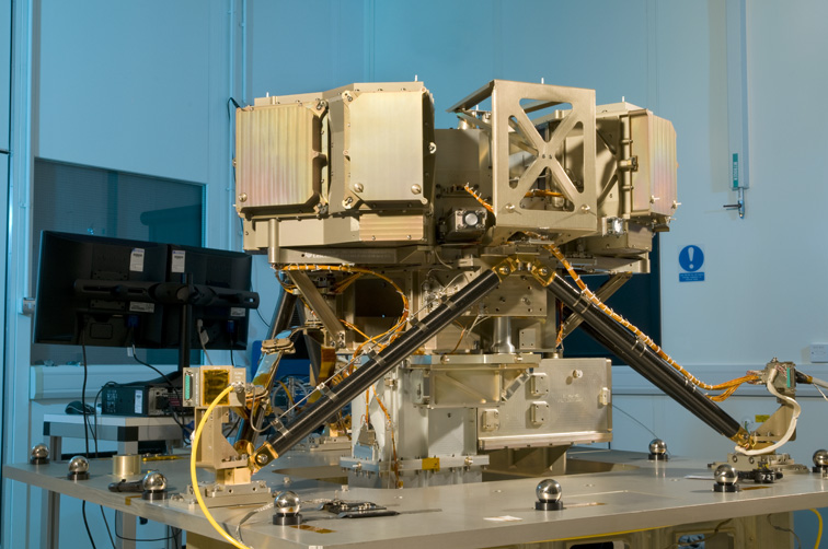 JWST MIRI